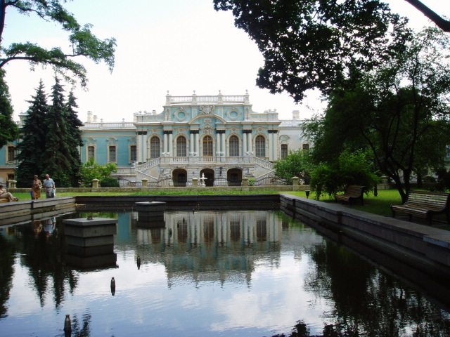 The official residence of the Ukrainian president the Mariyinsky Palace.